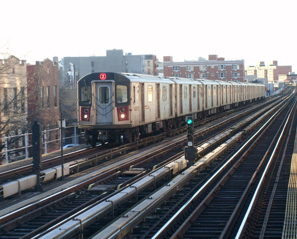 2 Train, running an R142 train set, entering the East 174th Street Station in the Bronx.